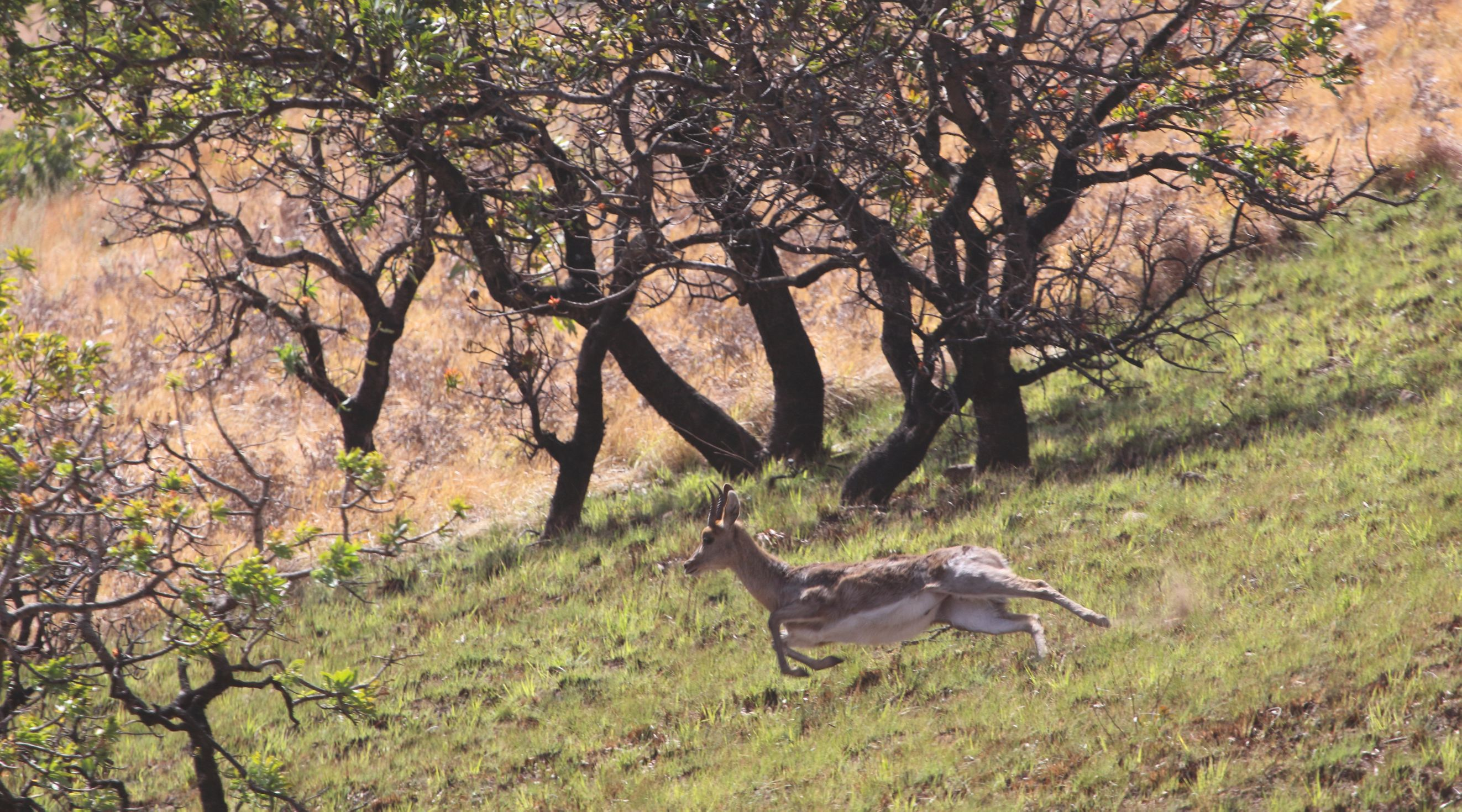 Male Southern Mountain Reedbuck Redunca fulvorufula fulvorufula in flight. Above Mikes Pass, KwaZulu-Natal Drakensberg, South Africa.